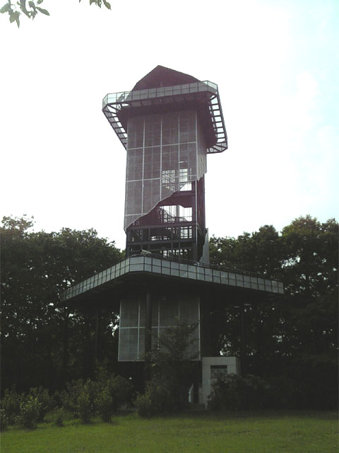 Mount Ninomiya Observation Platform